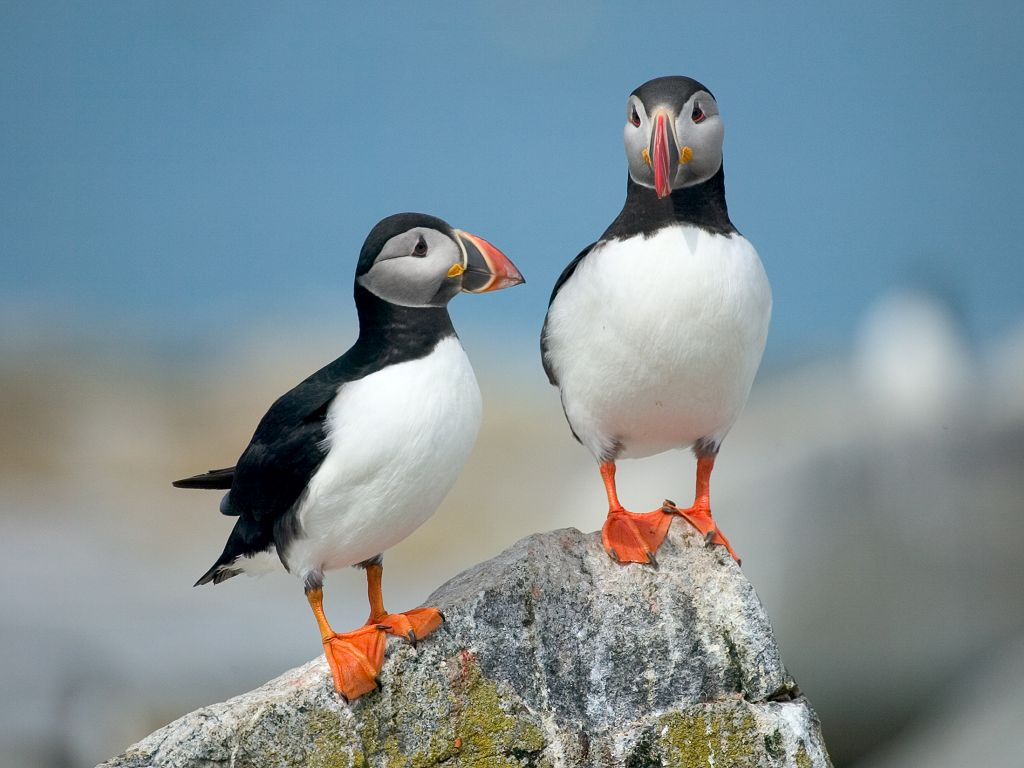 Atlantic Puffin on Machias Seal Island, by Thomas O'Neil. Available online at